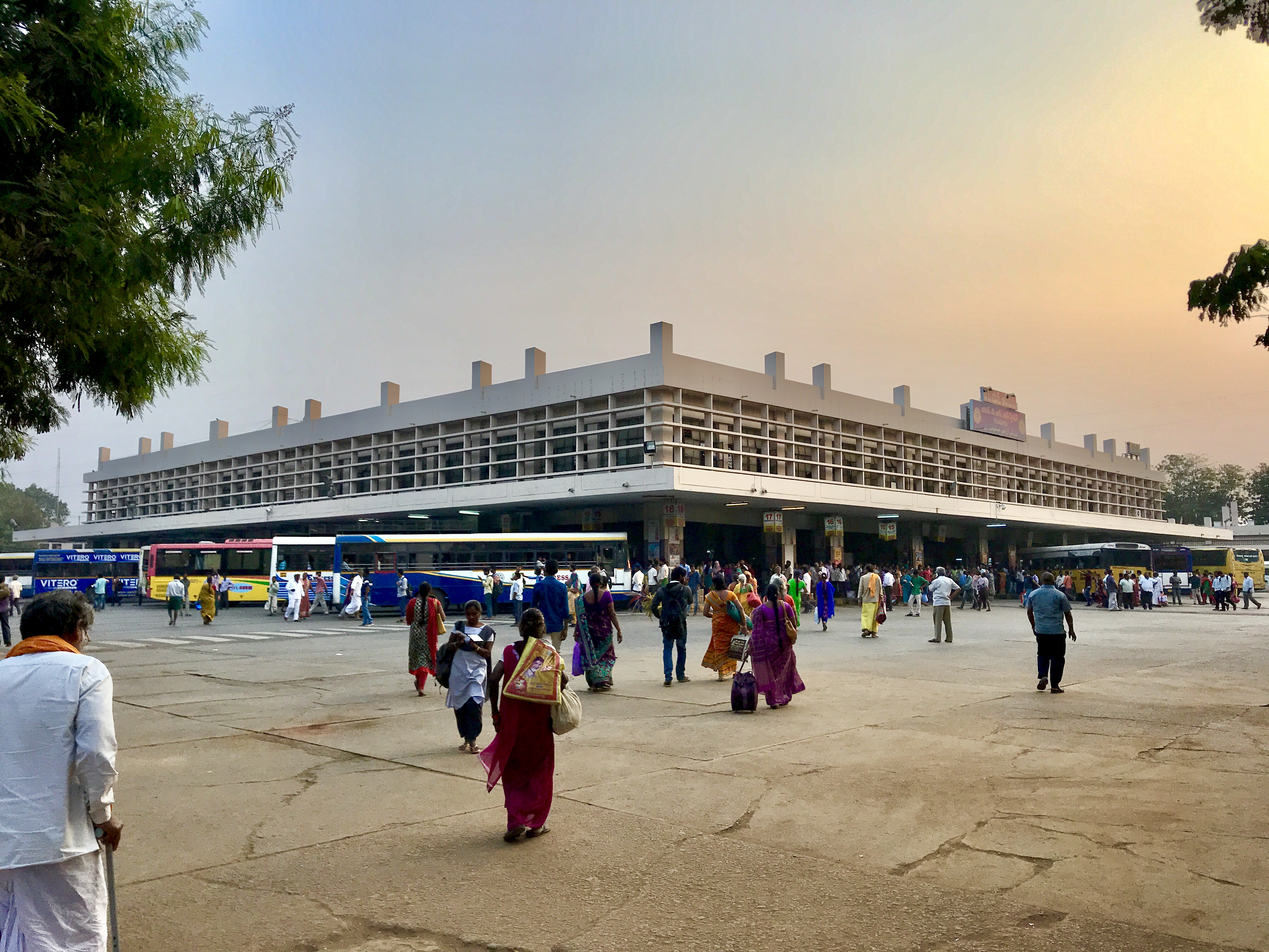 Departure block in NTR Bus Station